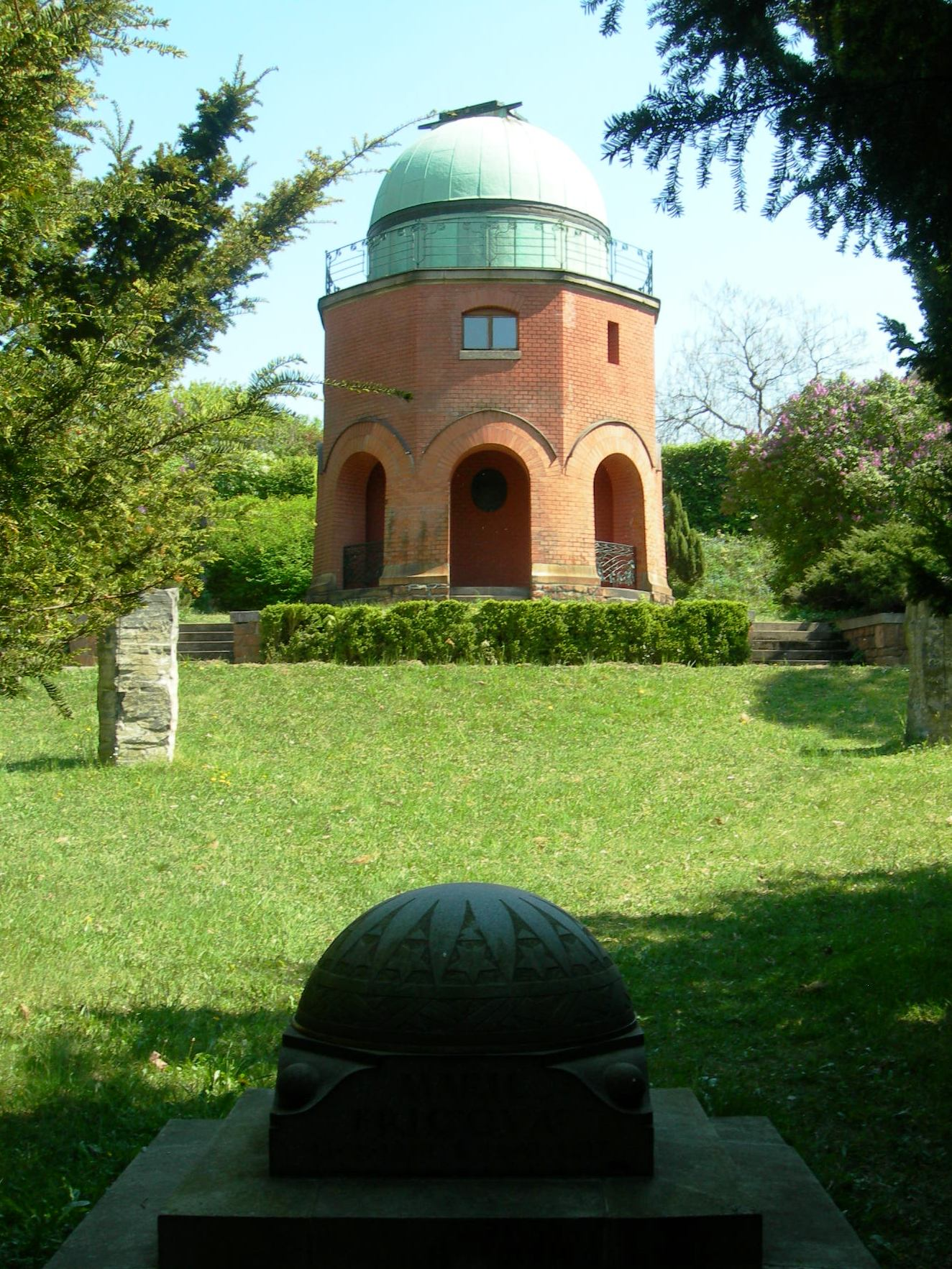 Historic cupola at the Ondřejov observatory, Czech Republic